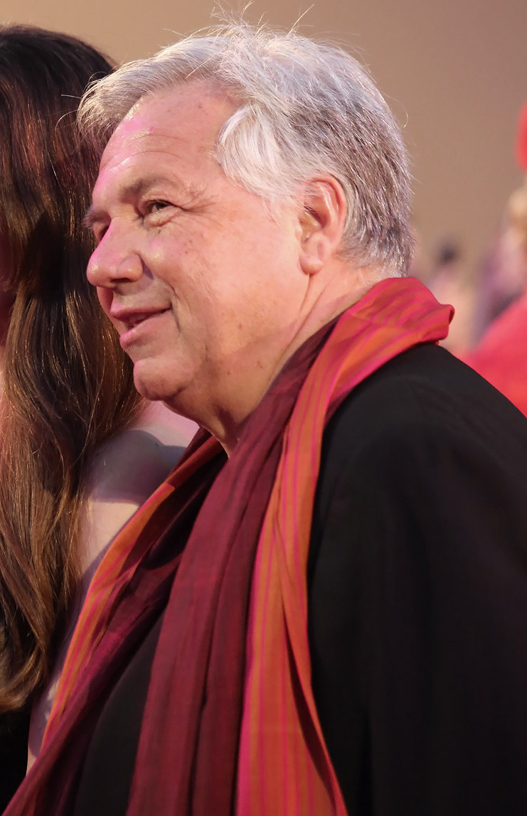 Wolfgang Fellner on the 'magenta carpet' at Life Ball 2013 at the square in front of the city hall of Vienna, Vienna, Austria.